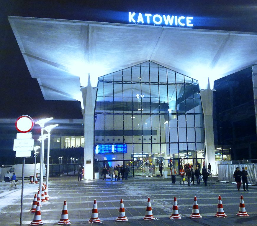 Katowice railway station